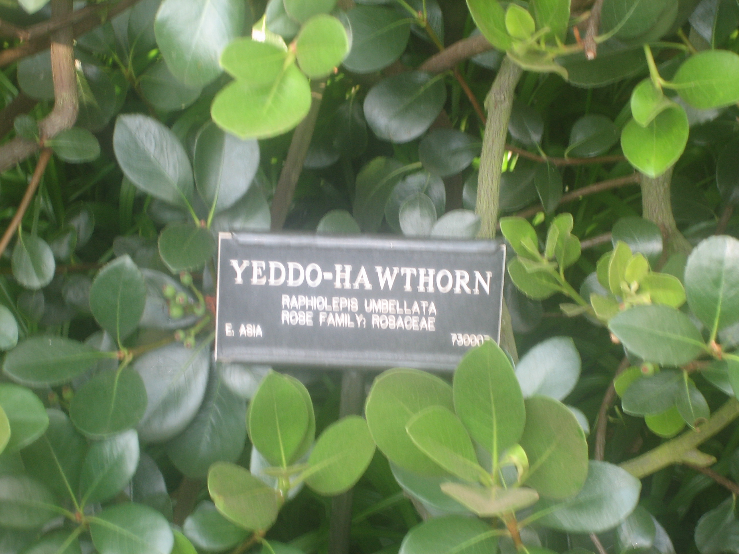 I took photo in July 2007.